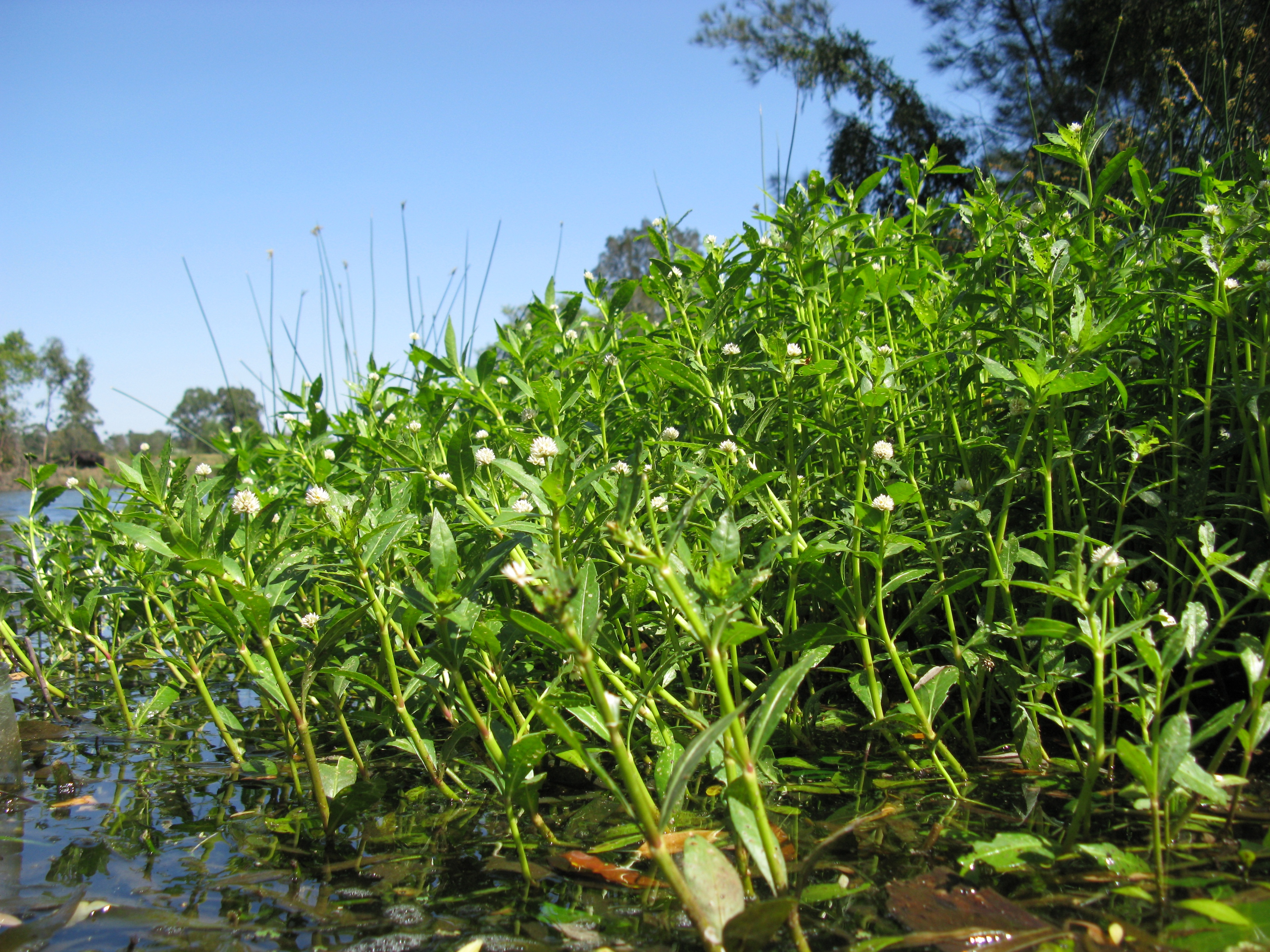 A noxious weed in NSW; here growing on the Williams River at Clarence Town; furthest up the river it has been recorded. Introduced, warm-season, perennial terrestrial to aquatic, hairless herb; with stolons to 10 m long. Leaves are opposite, sessile and obovate. Flowerheads are axillary to terminal, globose clusters of 1 to several flowers on peduncles to 4 cm long. Perianth segments are white and scarious. Bracts are shorter than the perianth. Flowering is from late spring to early autumn. A native of South America, it forms dense floating or rooted mats in aquatic and seasonally inundated land. A noxious weed that is already having severe impacts on irrigated agriculture, turf industry, extraction industry and vegetable industry; also impacting native areas. Control? Good luck!